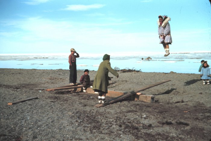 Make-shift seesaw from GIMP public-domain photos.